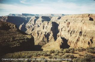 Grand Canyon West